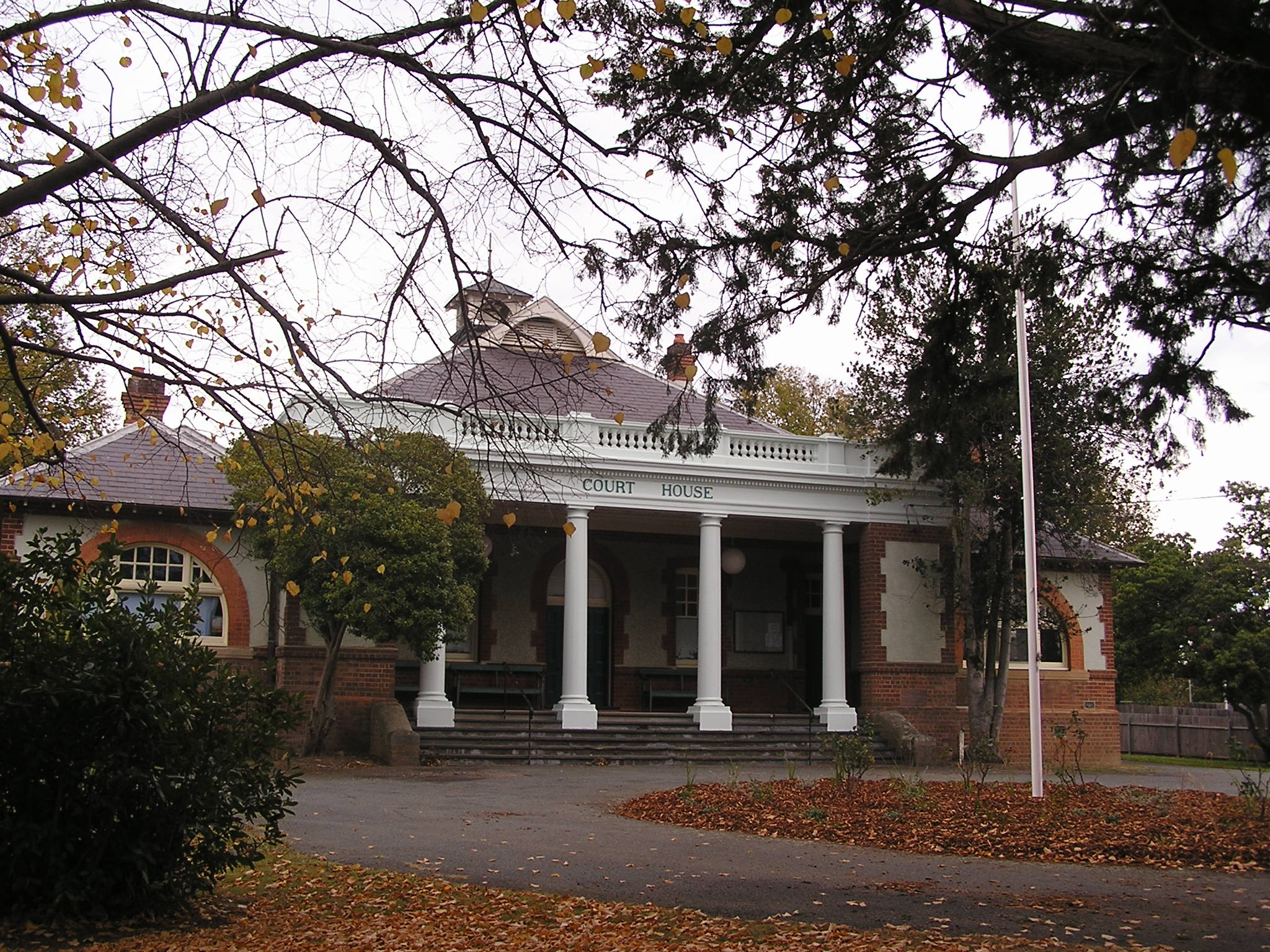 Braidwood, New South Wales, Australia Court House built 1884. From: : "Braidwood's first court house was constructed in 1837 by Dr Wilson. This handsome Court House, built in 1900, is a classic example of a Federation single-storey brick building. It complements the nearby police residences and is characterised by four Doric columns." Picture taken by AYArktos